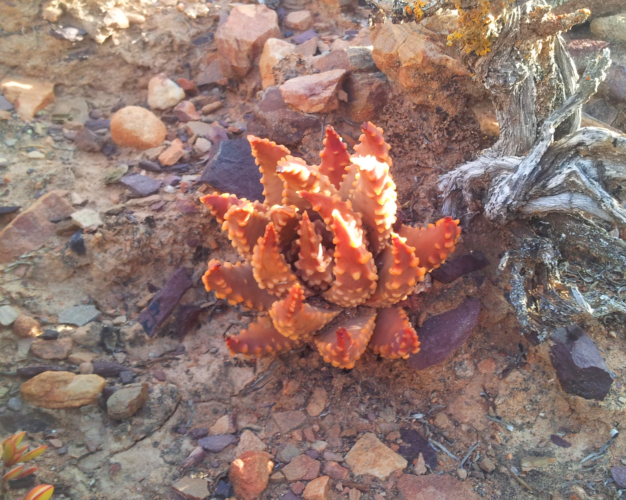 Haworthia pumila - Rooiberg Robertson Karoo